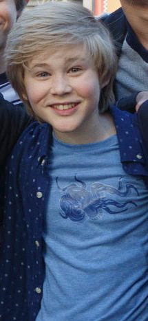 Scott McAboy and Cast of Escape From Mr. Lemoncello's Library